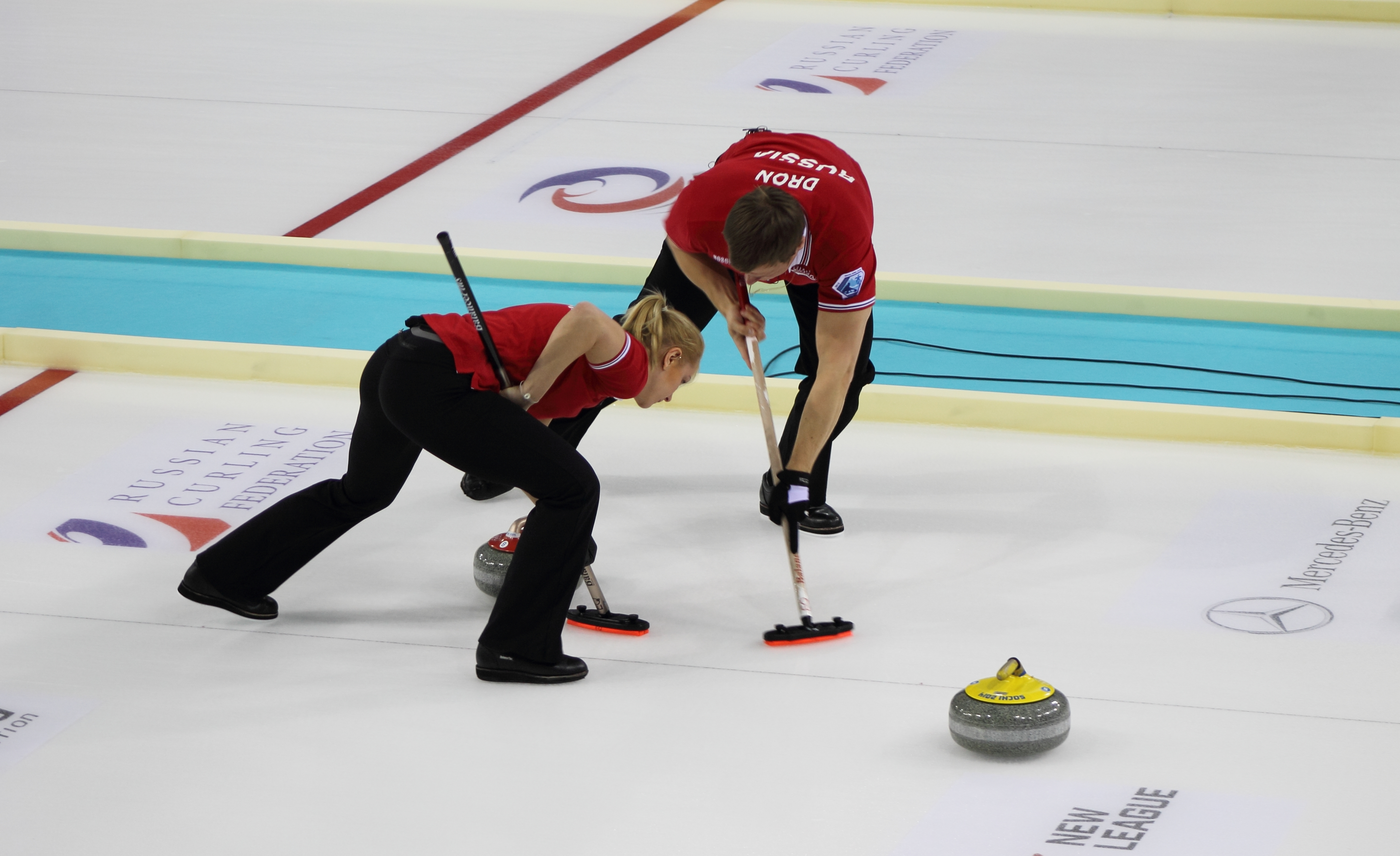 Curlers from Russia Victoria Moiseeva and Petr Dron during World Mixed Doubles Curling Championship 2015 in Sochi/